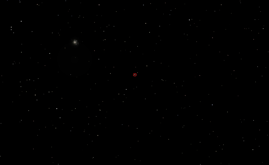 η Andromedae system as seen from earth orbit, M 33 in background. Generated with Celestia